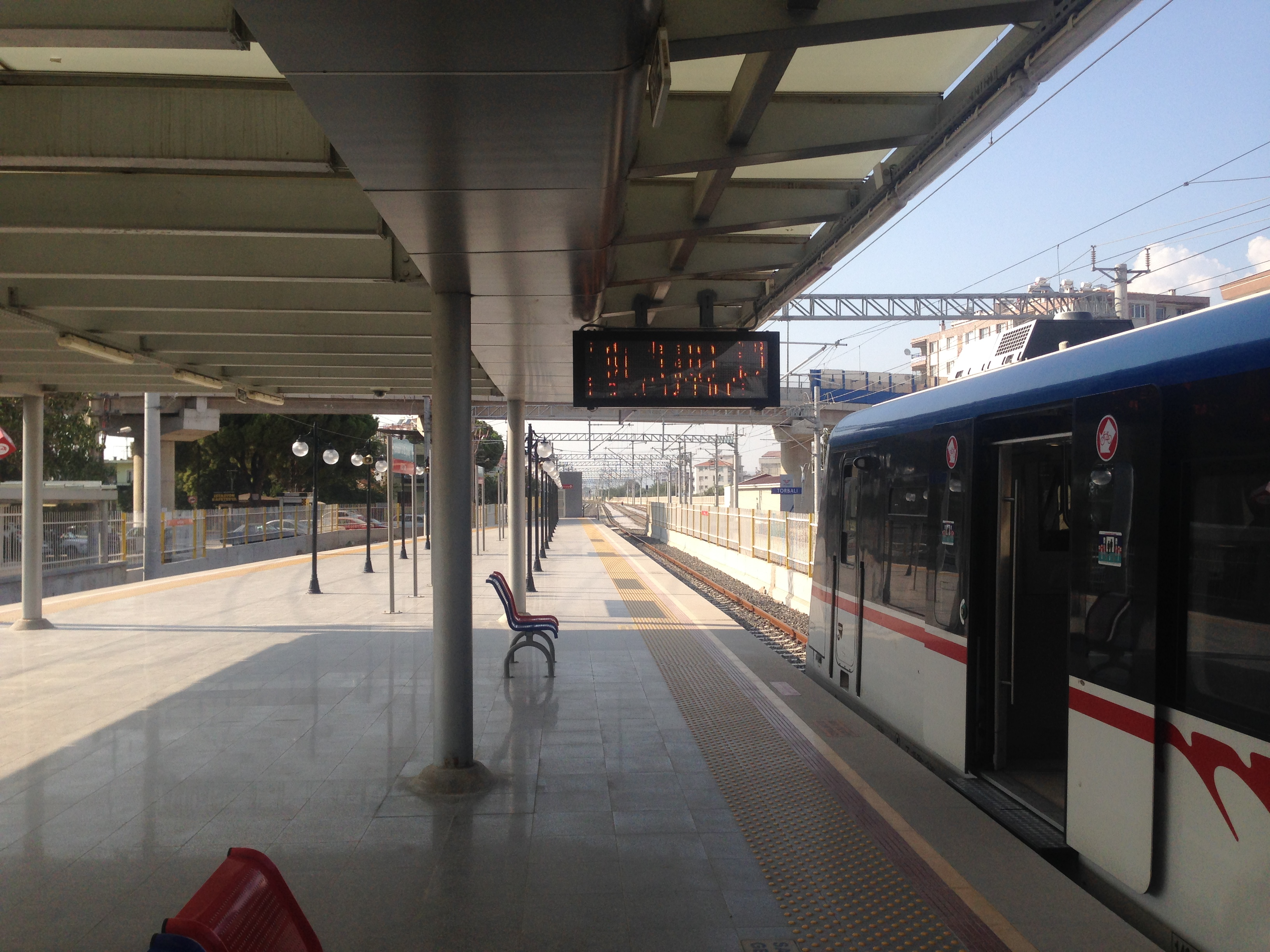 A northbound IZBAN train at Torbali.